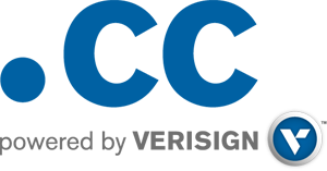 .cc domain name logo powered by Verisign